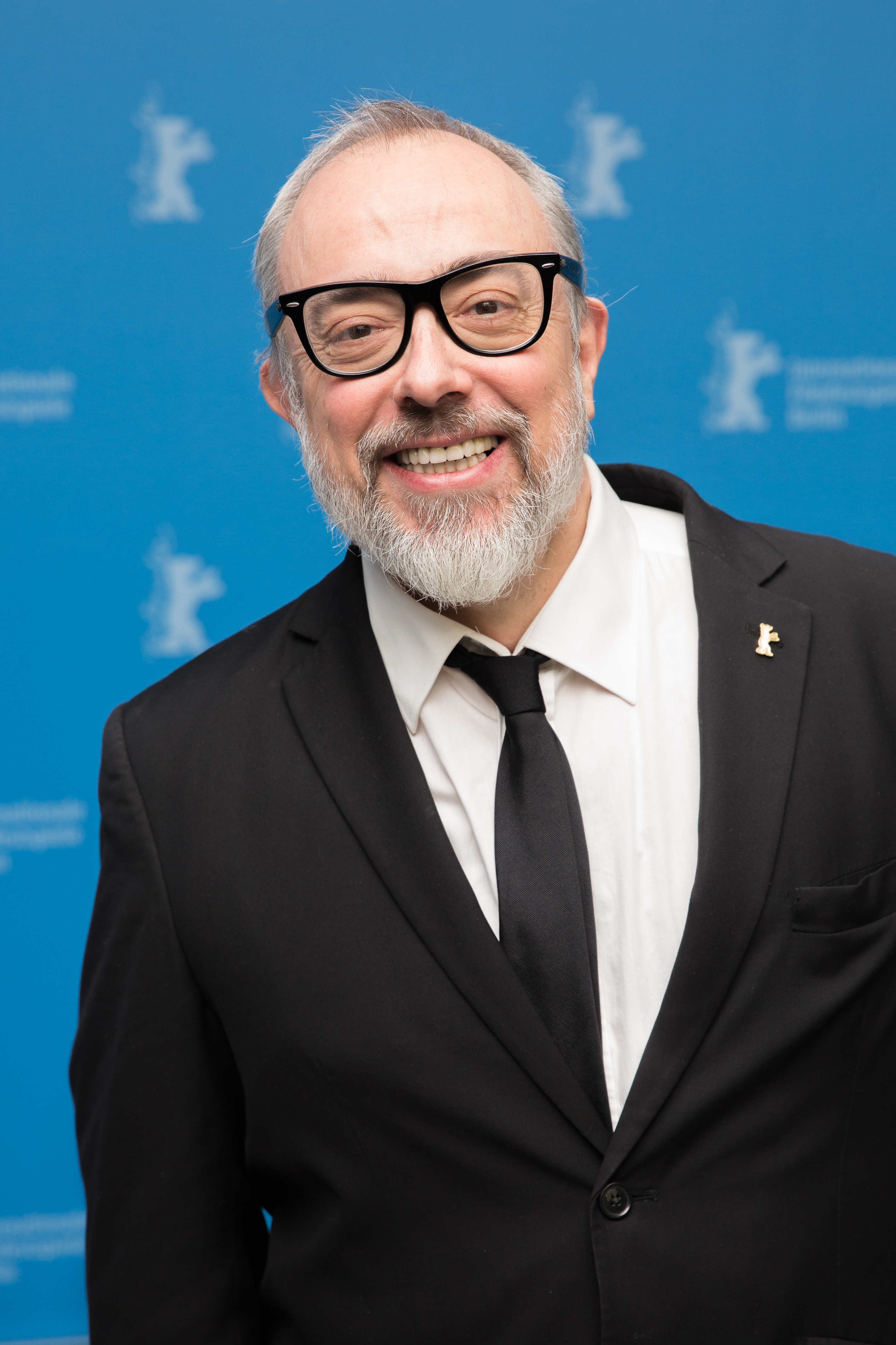 The director Álex de la Iglesia presenting the movie The Bar at the Berlinale 2017